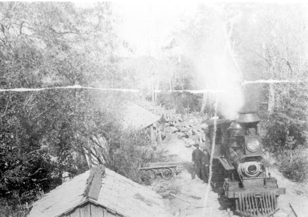 Local call number: Rc11103 Title: Pensacola and Andalusia Railroad Company train unloading logs into Escambia River Date: 189_ Physical descrip: 1 photoprint; b&w; 8 x 10 in. Series Title: Reference collection General note: The logs floated to Skinner Manufacturing Company mill. Repository: State Library and Archives of Florida, 500 S. Bronough St., Tallahassee, FL 32399-0250 USA. Contact: 850.245.6700. Persistent URL